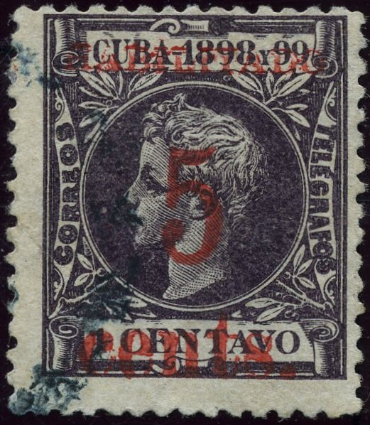 Representative stamp from fourth printing of U.S. Provisional stamps for Cuba in Puerto Príncipe